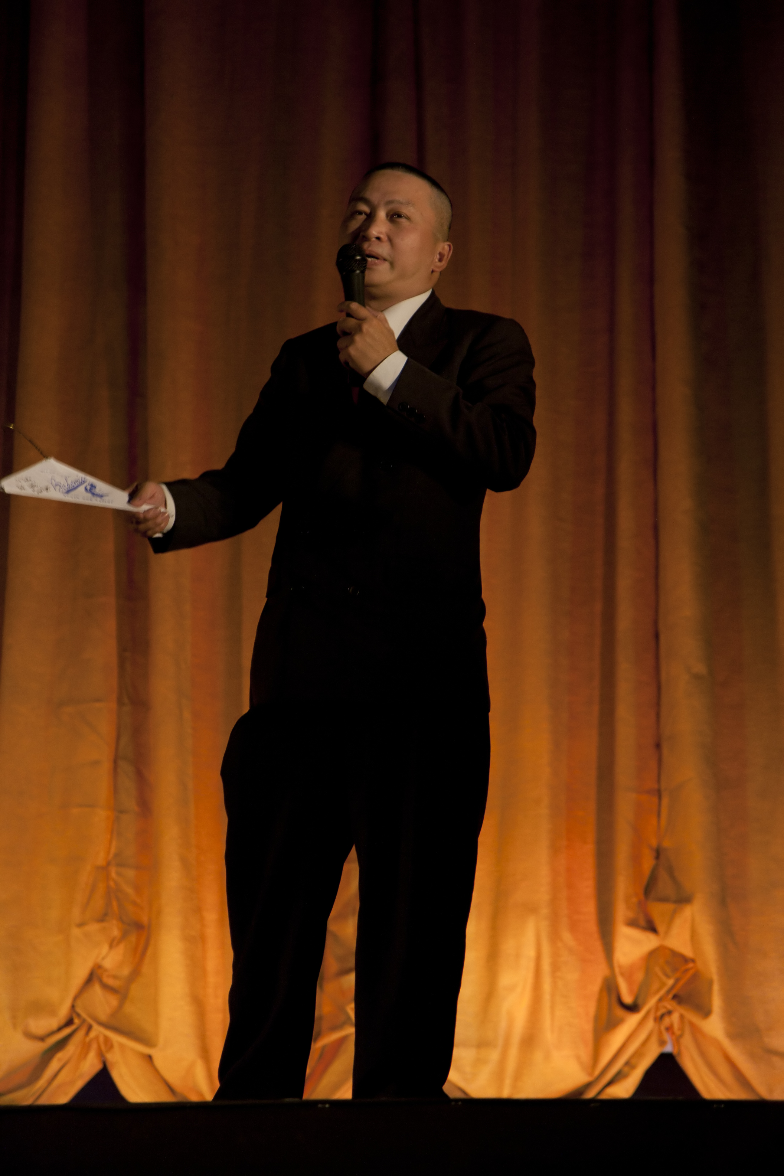 James Nguyen, director of Birdemic: Shock and Terror, speaking at the Bloor Cinema in Toronto, before a screening of the film.